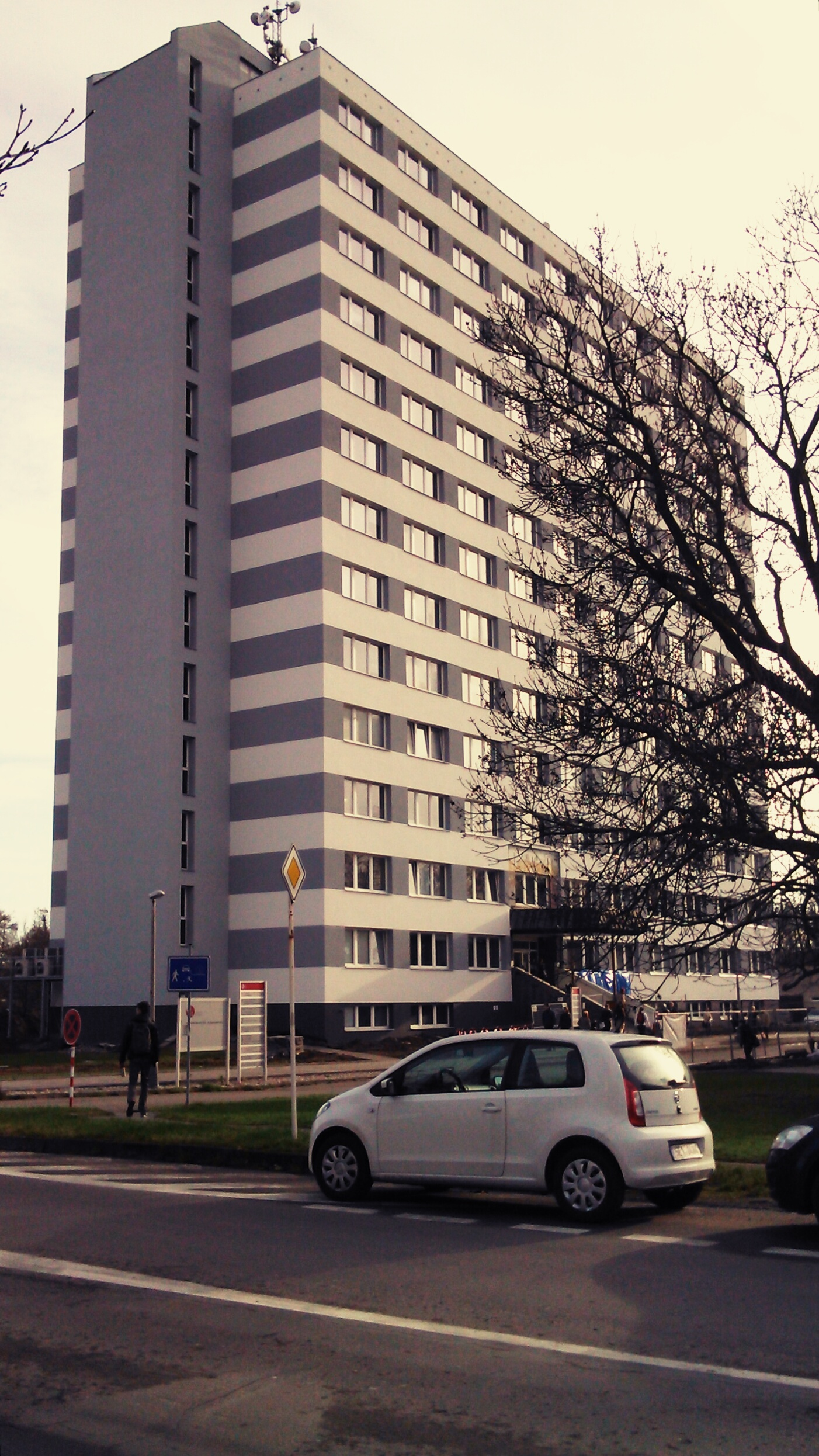 Phaculty of Philosophy and Arts of the University of Pardubice